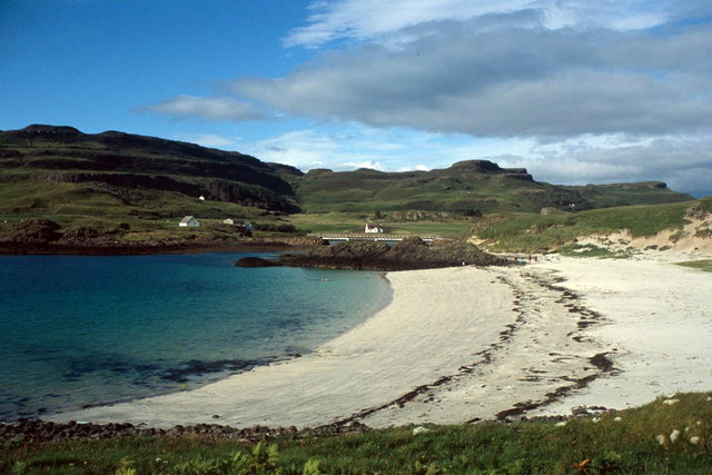 Sandy beach by Sanday roadbridge This excellent beach provides good swimming in the clearest water imaginable.